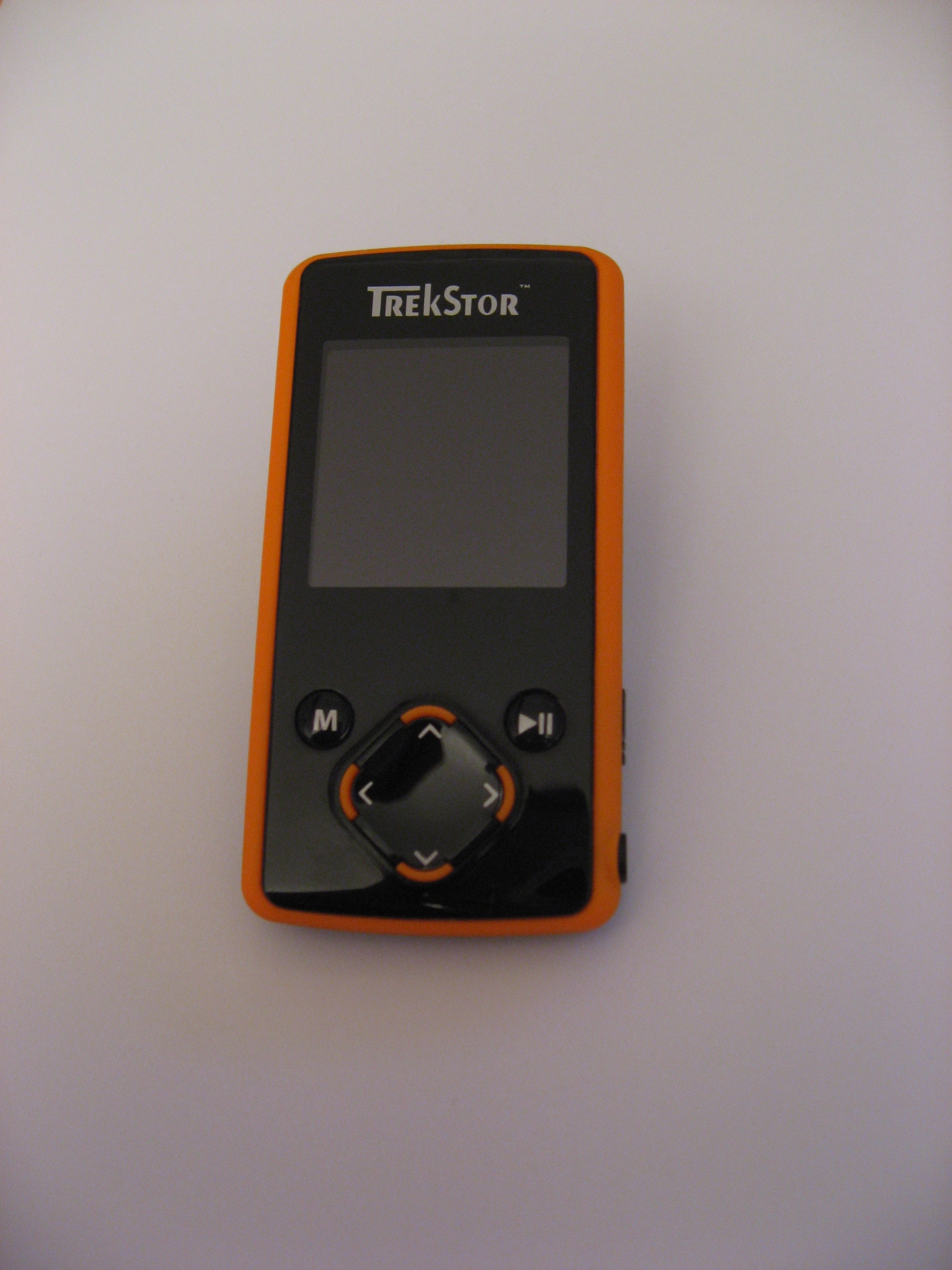 A MP3 Player from the Company TrekStor. The name of this i.Beat move S. It has 4 GB of storage.